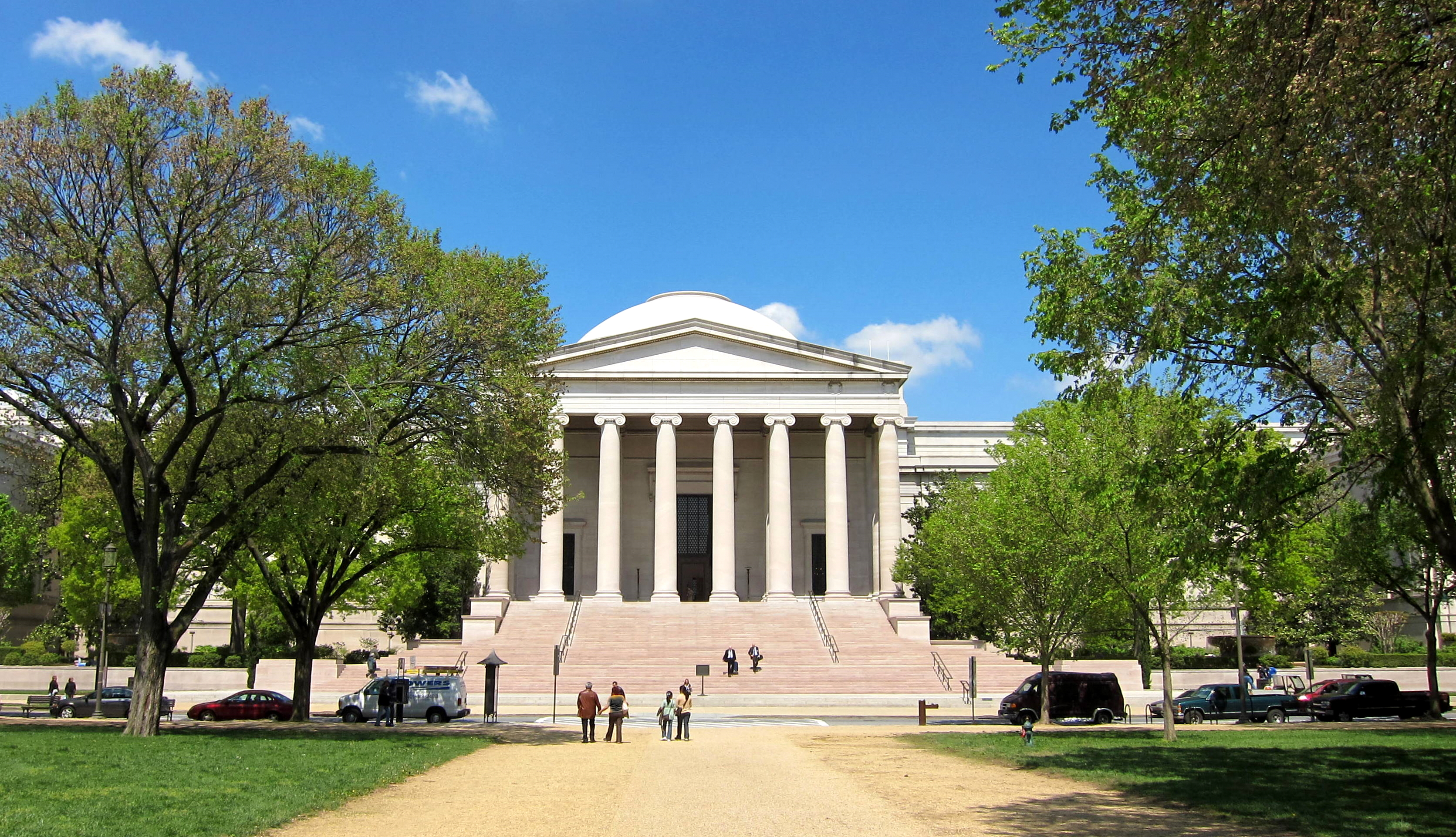 The south facade, seen from the mall's walking path, of the West Building of the National Gallery of Art. Located on the National Mall, between the 400–700 blocks of Madison Drive, in N.W. Washington, D.C.. The Neoclassical style museum was designed by noted architect John Russell Pope, and built in 1941. The West Building is listed on the District of Columbia Inventory of Historic Sites, and is designated as a contributing property to the National Mall's listing on the National Register of Historic Places.